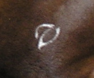 Freeze brand on a horse. Here Varian Arabians stylized "V" logo